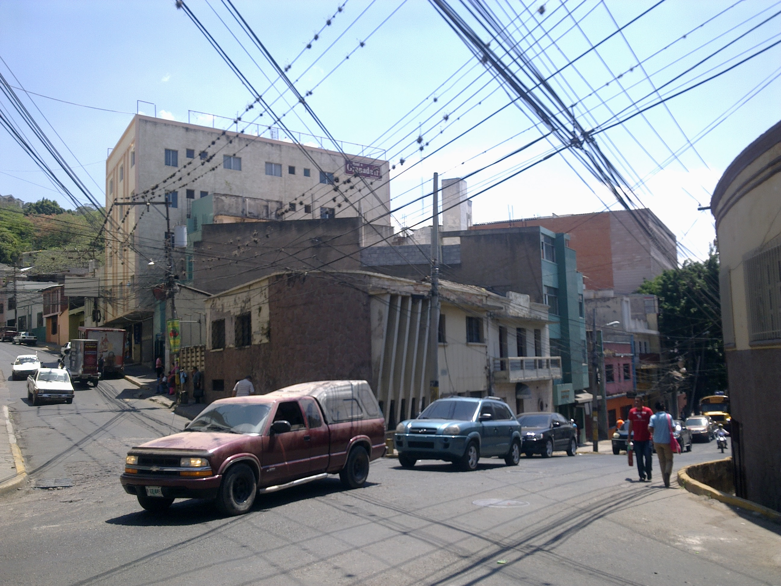 Calles de Tegucigalpa, Honduras